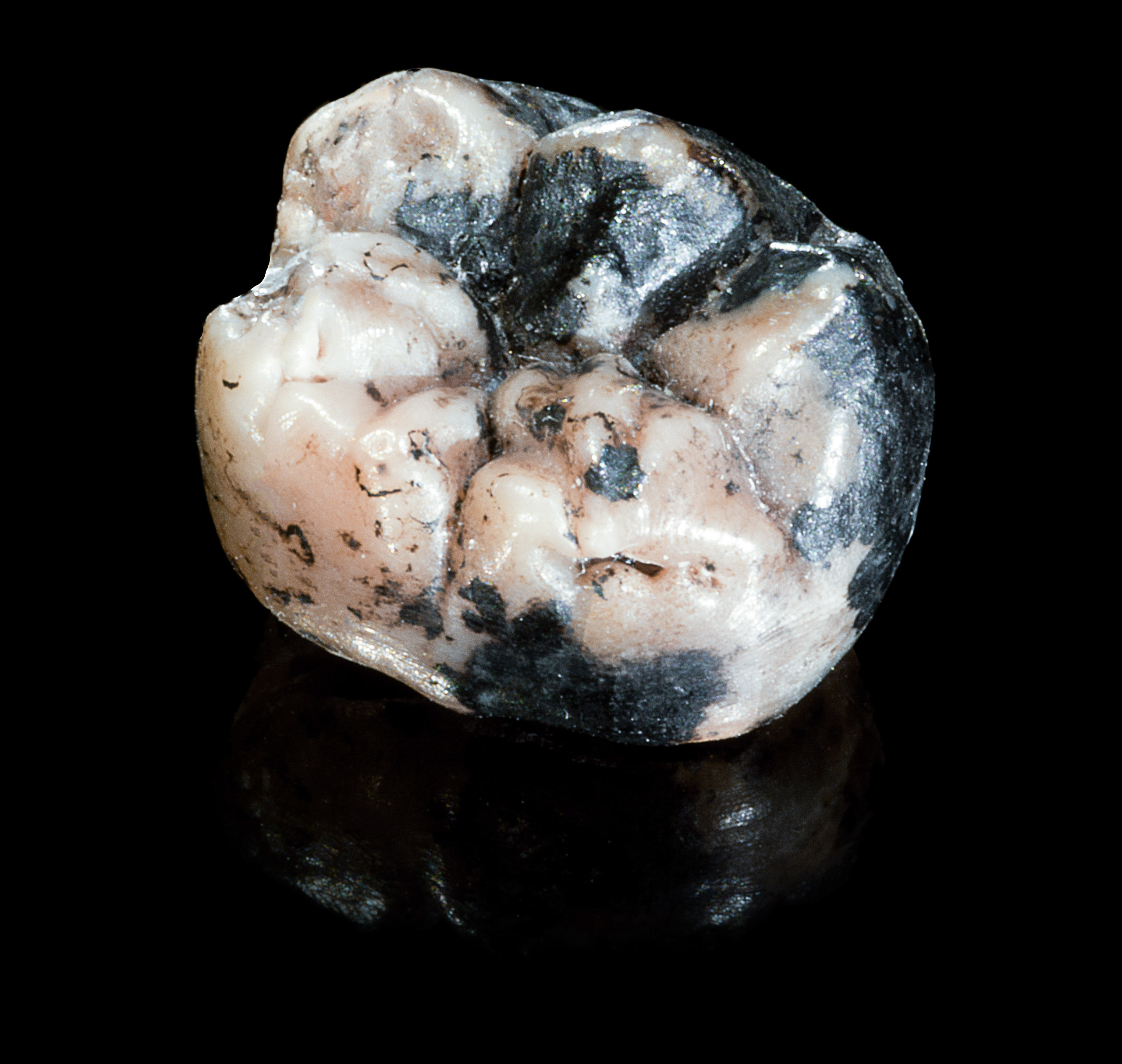 Tooth of Homo habilis KB 5223 from Kromdraai, South Africa around 2 million years. Collection of the Transvaal Museum, Northern Flagship Institute, Pretoria South-Africa. (14.37x12.60x6.88 mm)